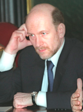 Head of the presidential Administration of Russia Alexander Voloshin at the meeting with veterans, military leaders and heads of the Russian veteran organisations.